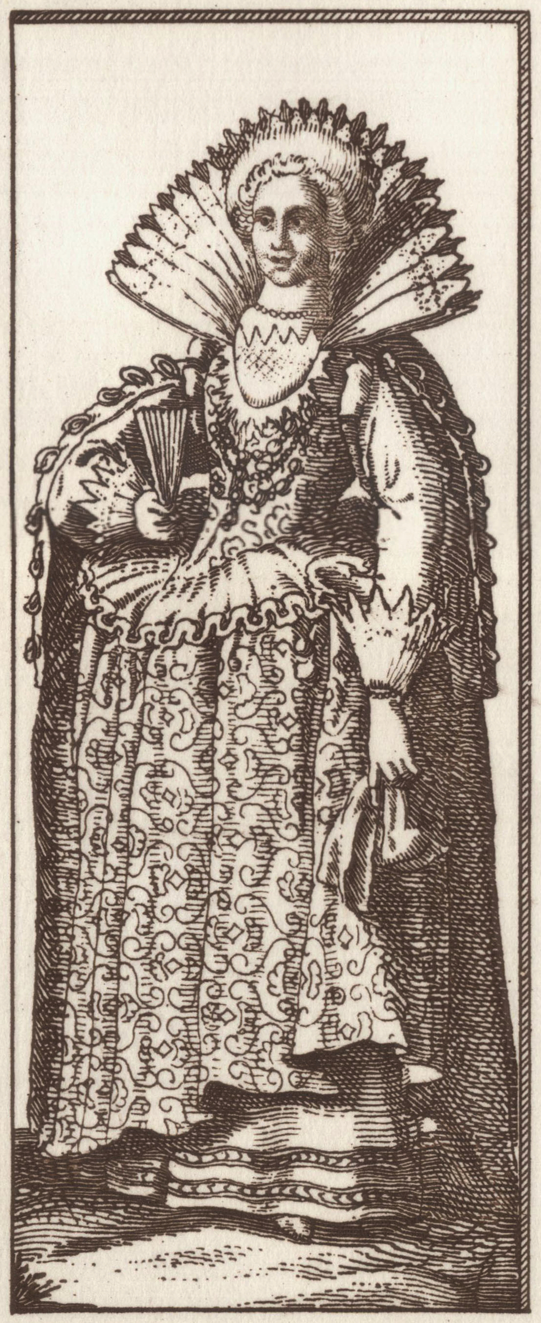 "Faemina Nobilis Parisiensis Gentille femme de Paris" on the map of Paris by Claes Jansz. Visscher.